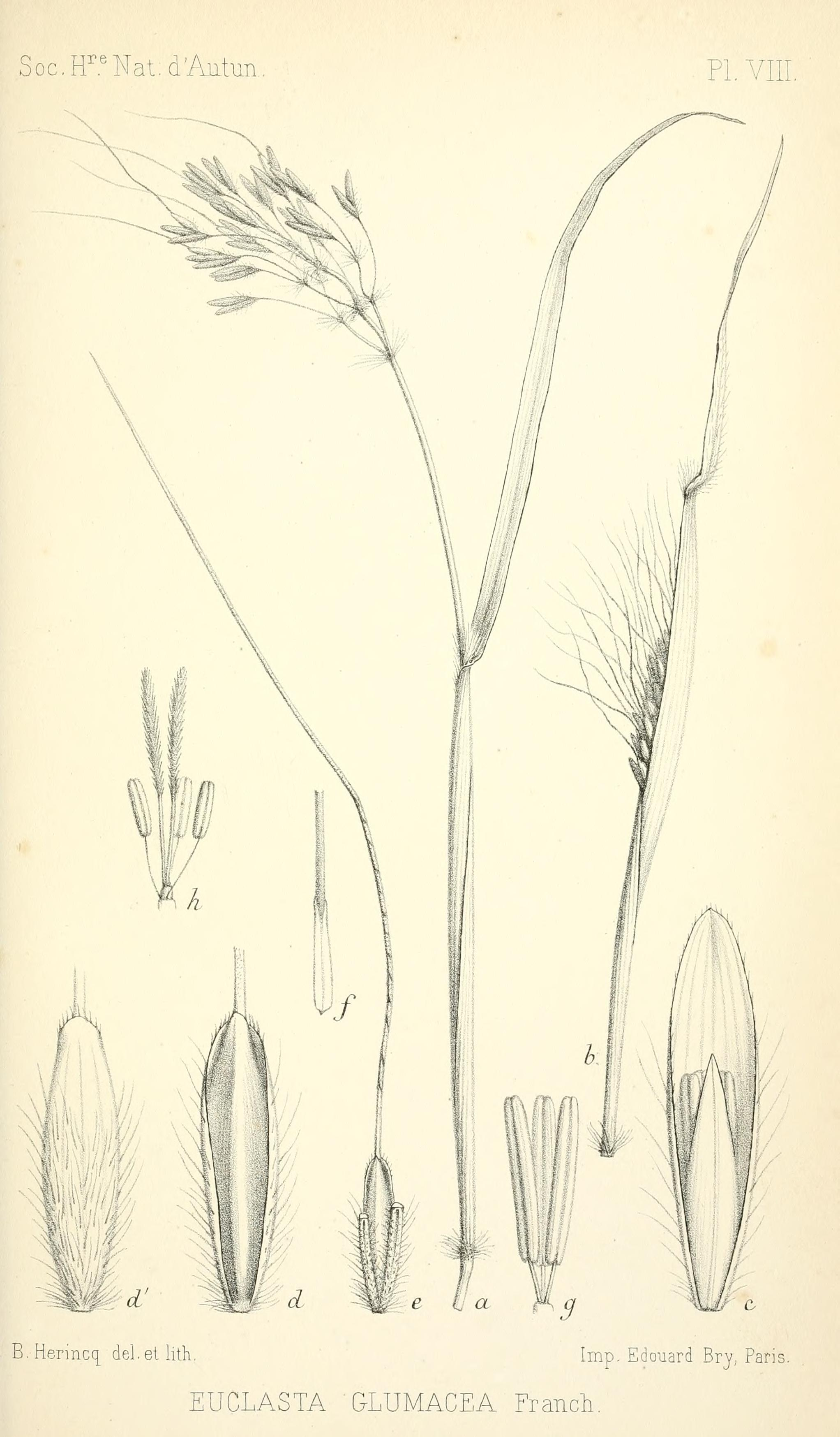 Title: Bulletin Year: 1888-1949 (1880s) Authors: Socit d'histoire naturelle d'Autun (France) Subjects: Socit d'histoire naturelle d'Autun (France); Natural history; Natural history -- France Publisher: Autun : La Socit Text Appearing Before Image: SocH^.^Nat.d'Antun PL VIII. Text Appearing After Image: m B.Heniicq delethth. Imp. Edouard EUCLASTA G-LUMACEA Franch. Bry, Par 15.